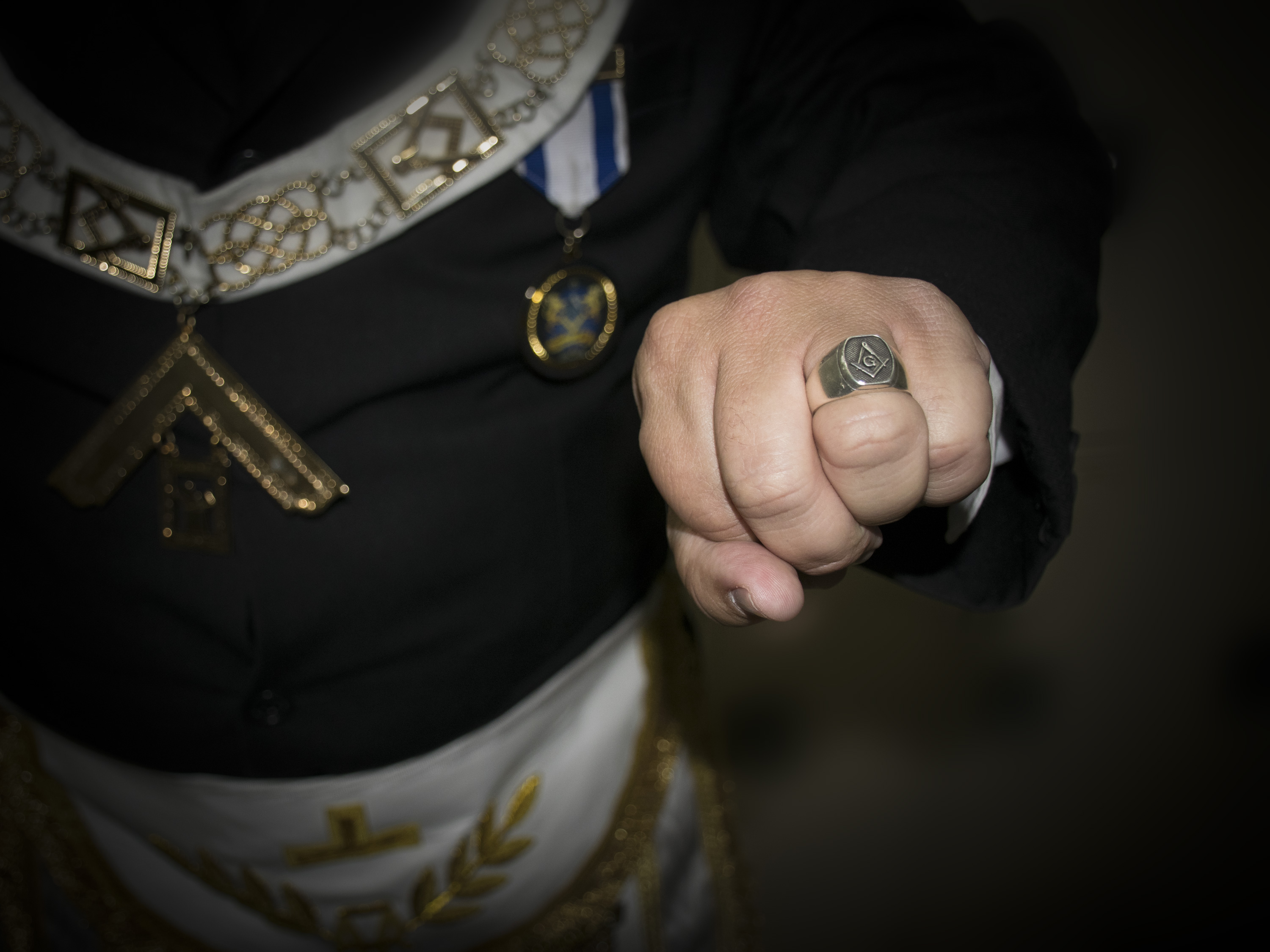 Masonic Ring. Can be worn by a free mason from 3rd rank and above